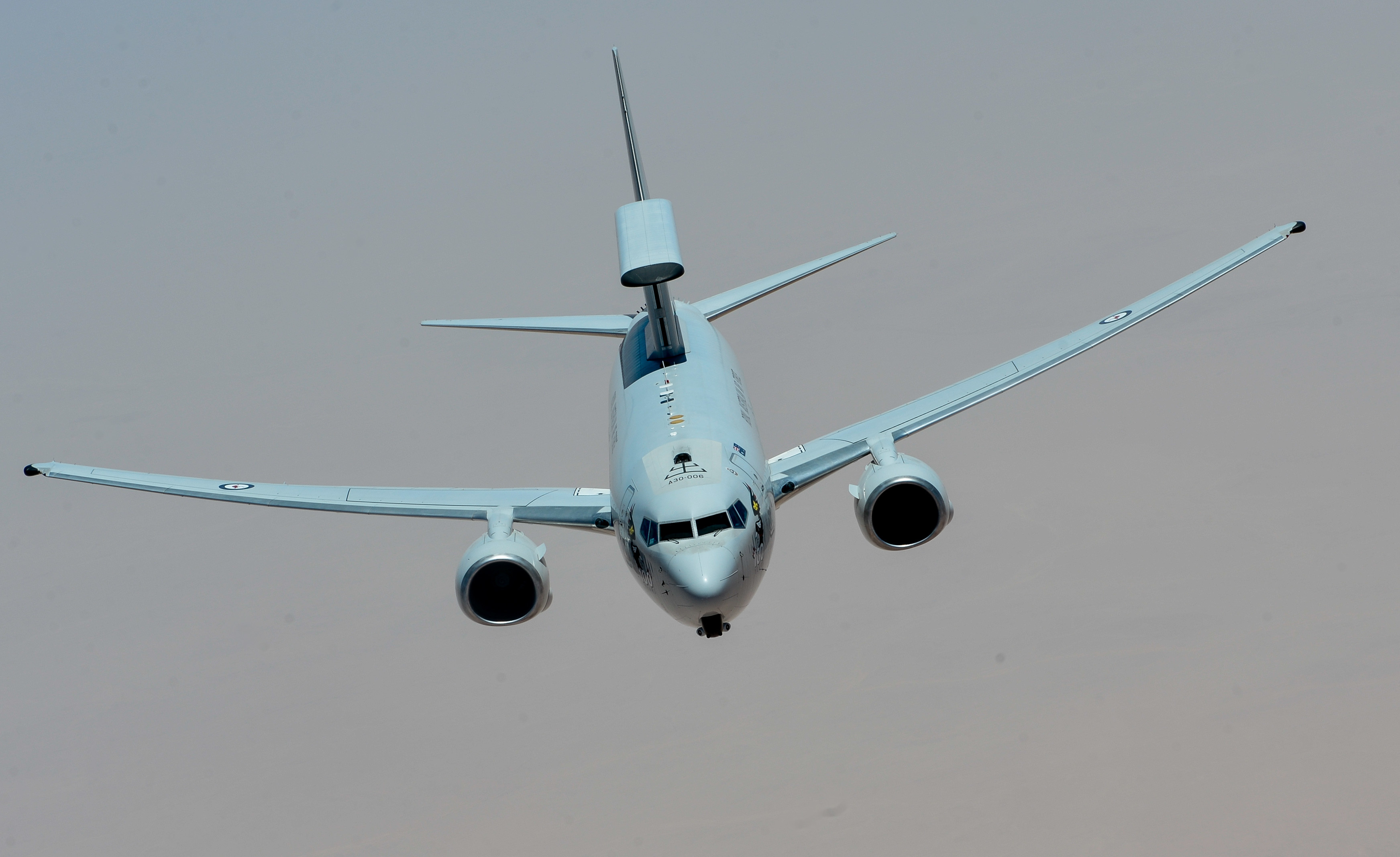 A Royal Australian air force E-7A Wedgetail approaches an airborne KC-135 Stratotanker, assigned to the 340th Expeditionary Air Refueling Squadron, to receive fuel during a mission supporting Operation Inherent Resolve, July 3, 2017. The E-7A aircrew can control the tactical battle space, providing direction for fighter aircraft, surface combatants and land-based elements, as well as supporting aircraft such as tankers and intelligence platforms. (U.S. Air Force photo by Staff Sgt. Michael Battles)